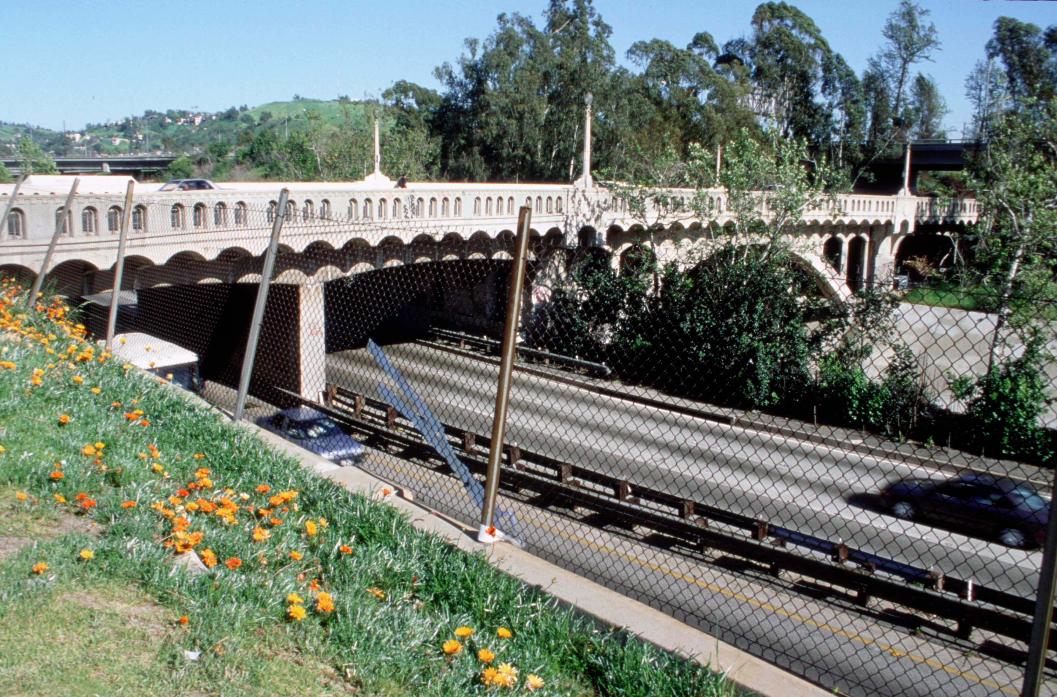 The Arroyo Seco Parkway passing under the concrete Avenue 26 bridge, in Los Angeles.